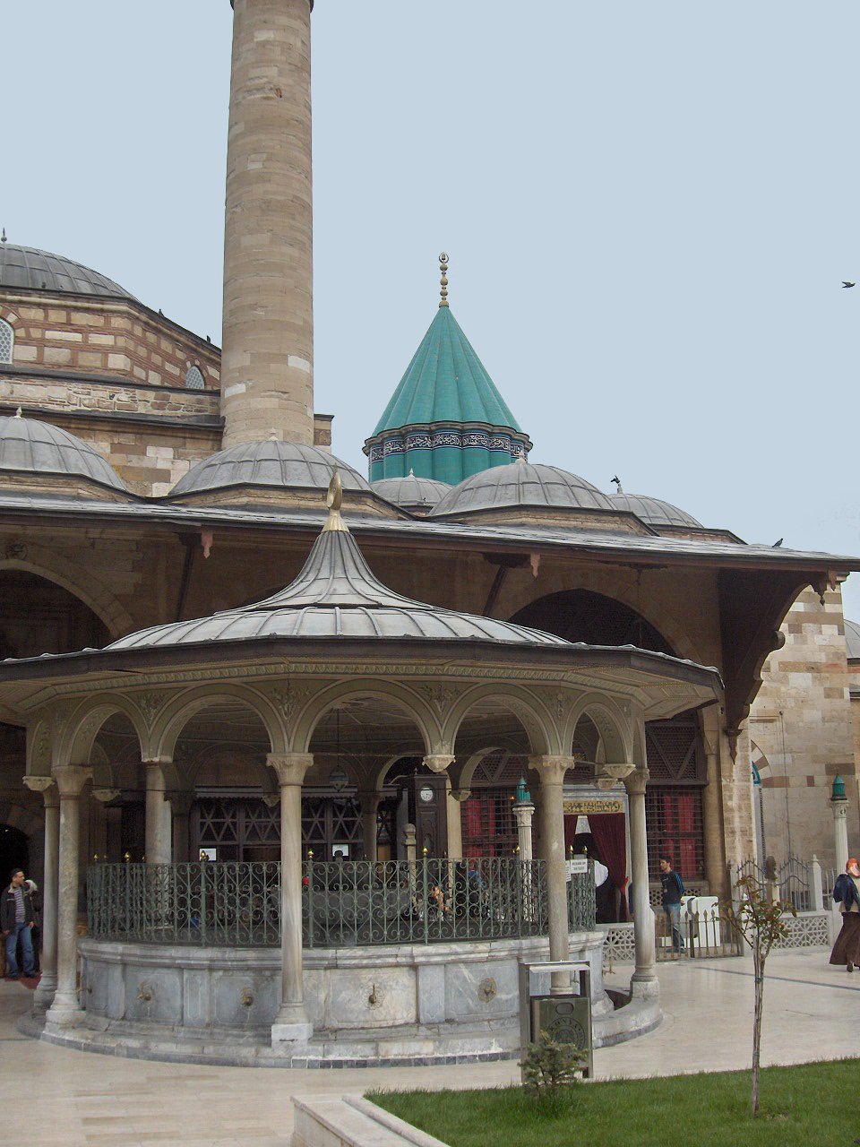 Ṣadirvan (ablution fountain) and courtyard entrance — Mevlâna Museum. Konya, Central Anatolia, Turkey.